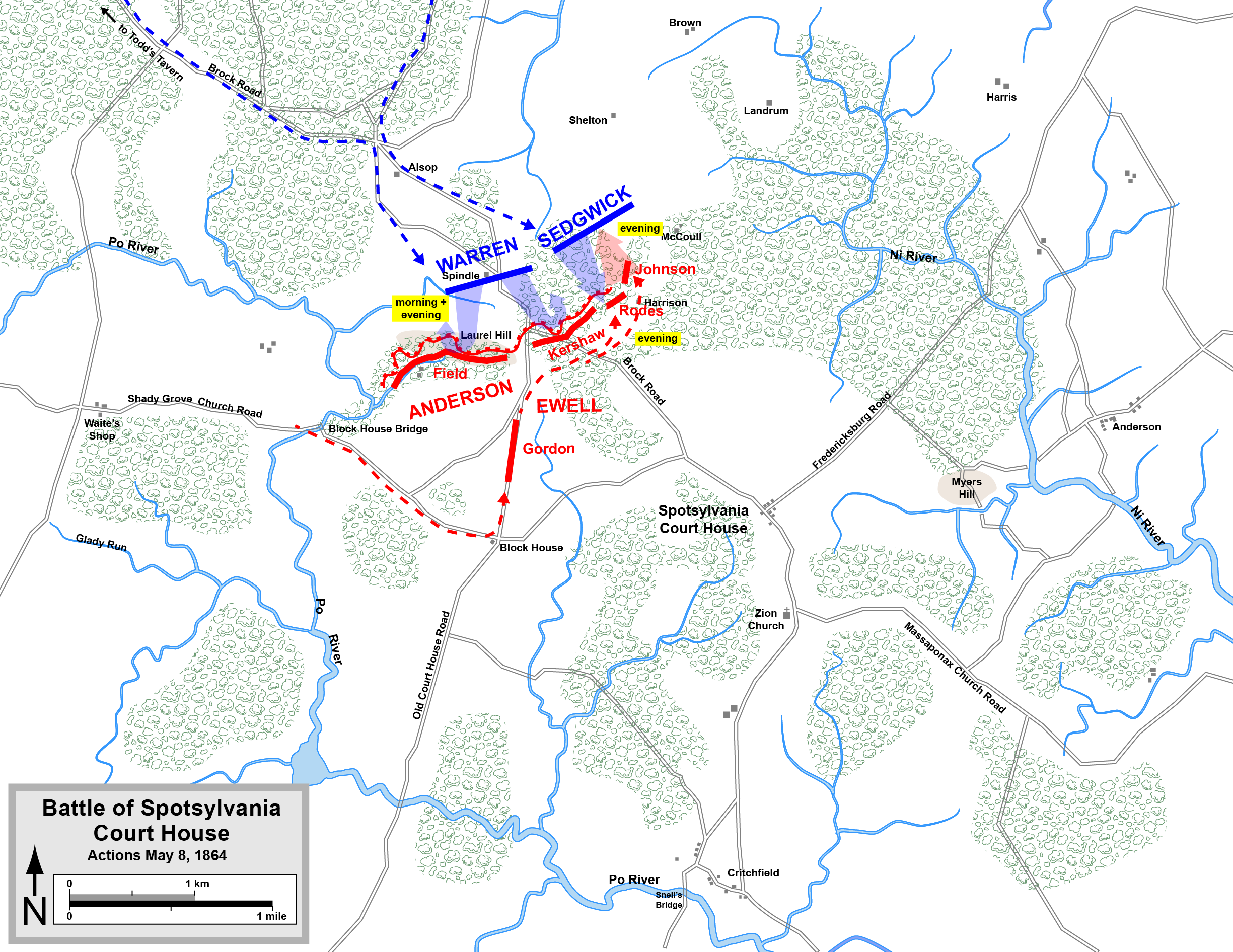 One of a series of seven maps depicting the Battle of Spotsylvania Court House of the American Civil War. Drawn by Hal Jespersen in Adobe Illustrator CS5. Graphic source file is available at Attribution: Map by Hal Jespersen